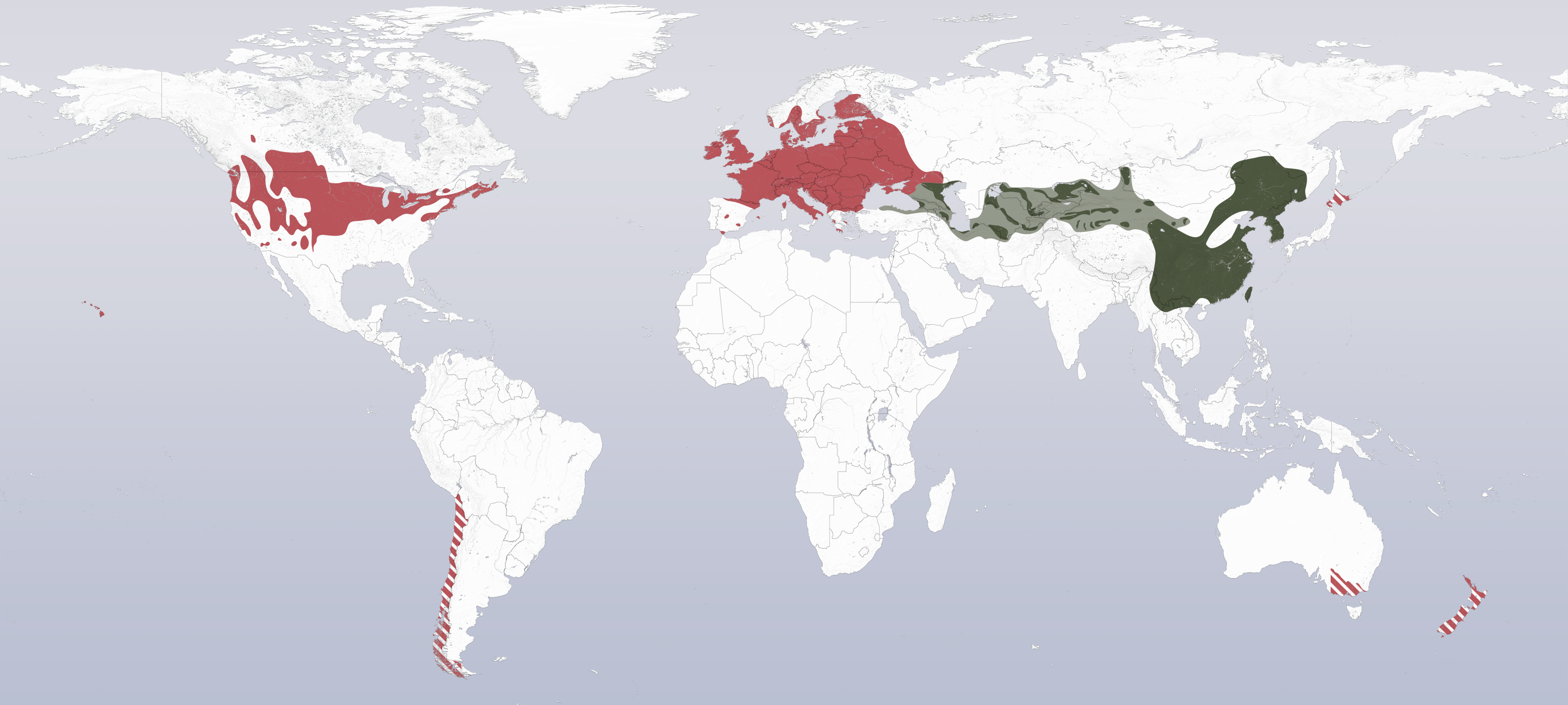 Original (black) and current (red) distribution of the Common Pheasant (Phasianus colchicus). Stripes: No detailed data about distribution